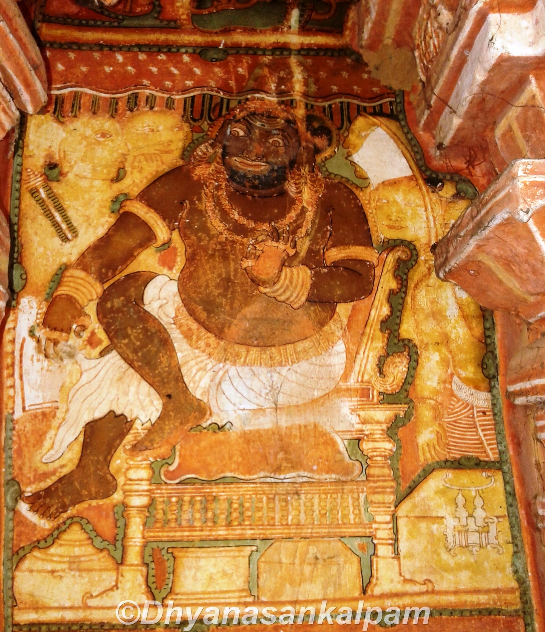 ചിത്രങ്ങൾ